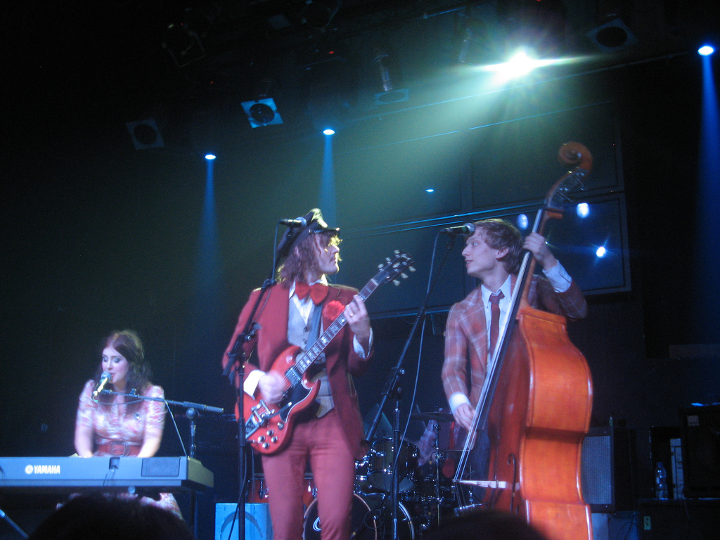 Linda Carlsson (Miss Li) with her band.